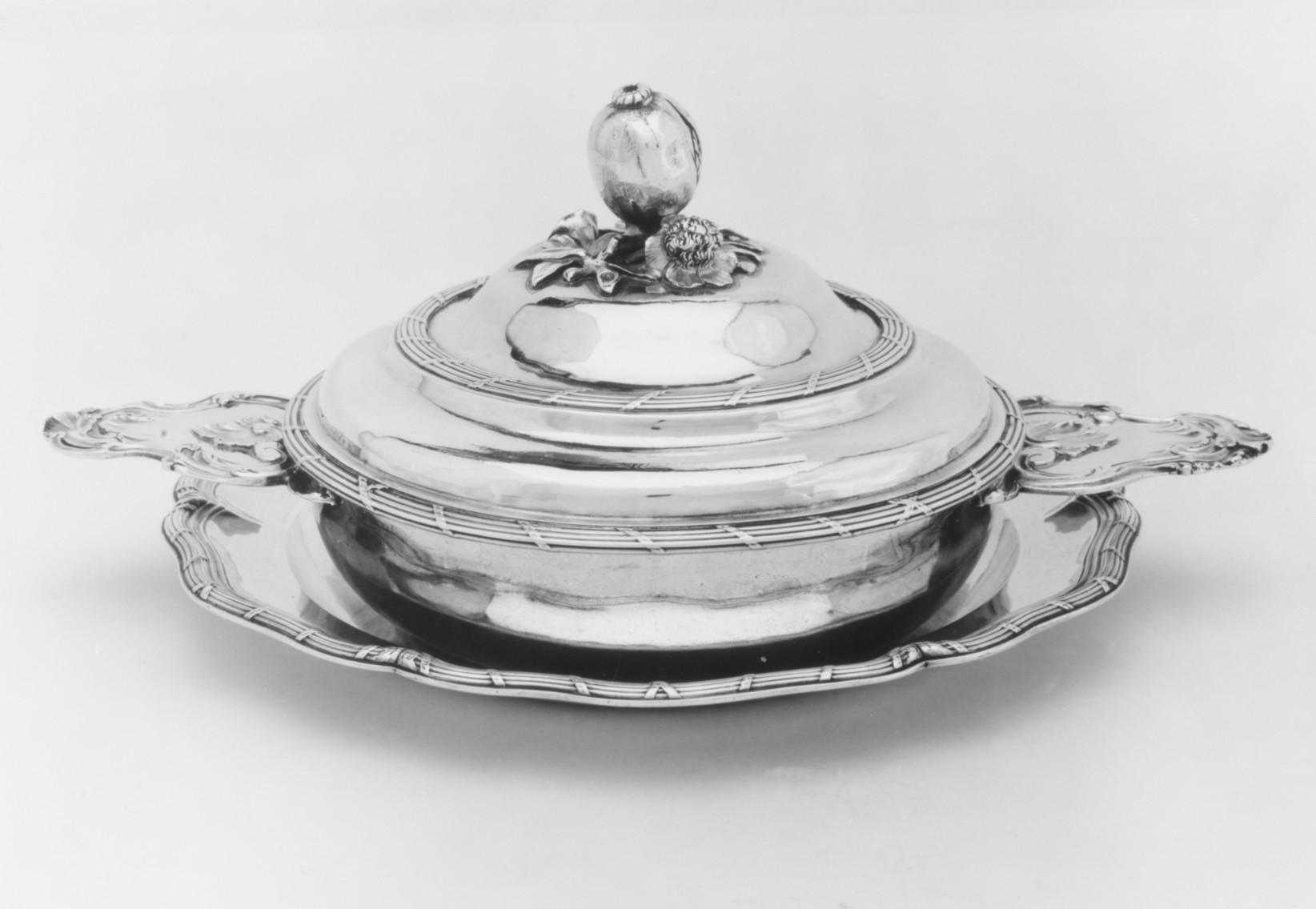 French, Paris; Bowl with cover (Écuelle) and stand; Metalwork-Silver